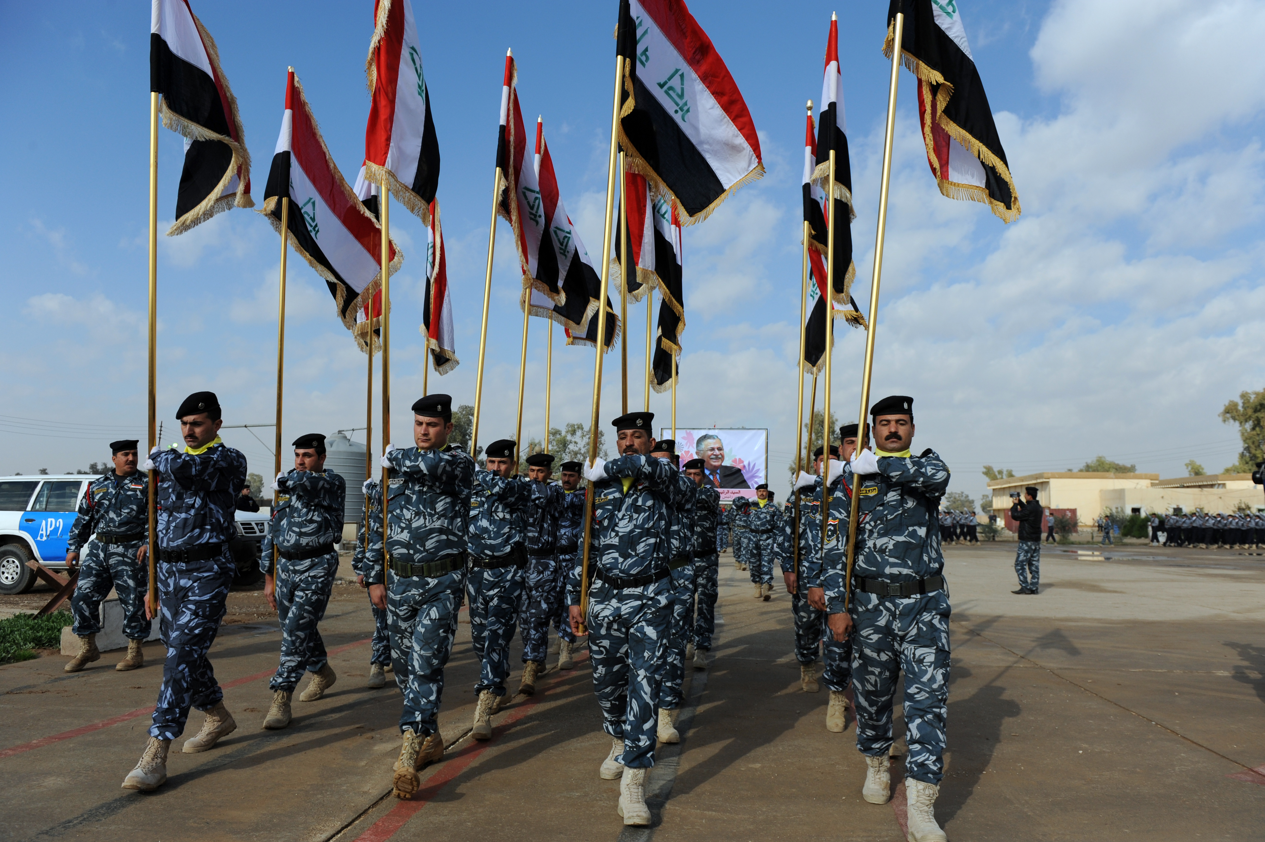 Graduates march around the parade field at the Kirkuk Training Center during a ceremony at KTC located on Forward Operating Base Warrior in Kirkuk, Iraq, Dec. 15, 2009. More than 150 Iraqi service members graduated from the KTC after marching in front of various leaders and displaying the skills they've learned throughout their training. (U.S. Navy photo by Mass Communication Specialist 2nd Class (SW) Matthew D. Leistikow/Released)